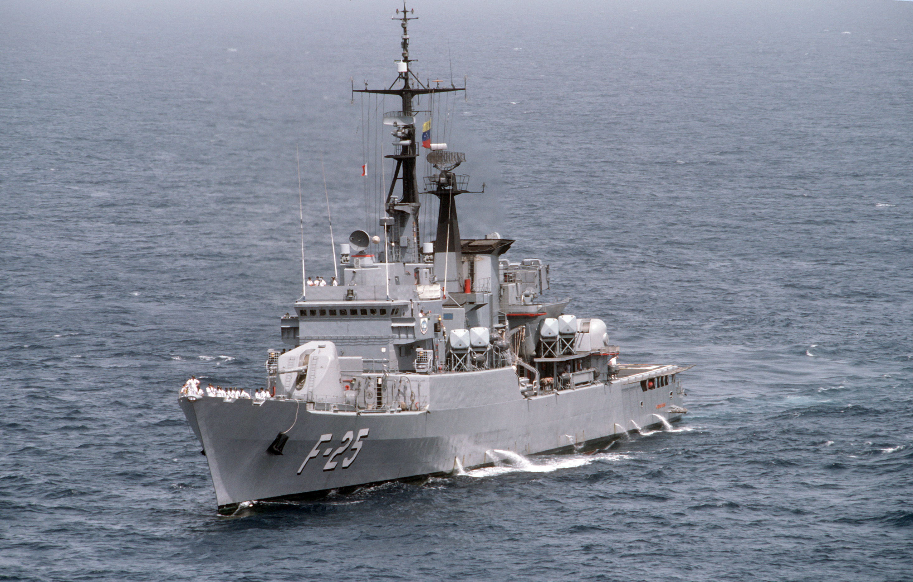 A port bow view of the Venezuelan frigate GENERAL SALOM (F 25) underway off the coast of Caracas, Venezuela.